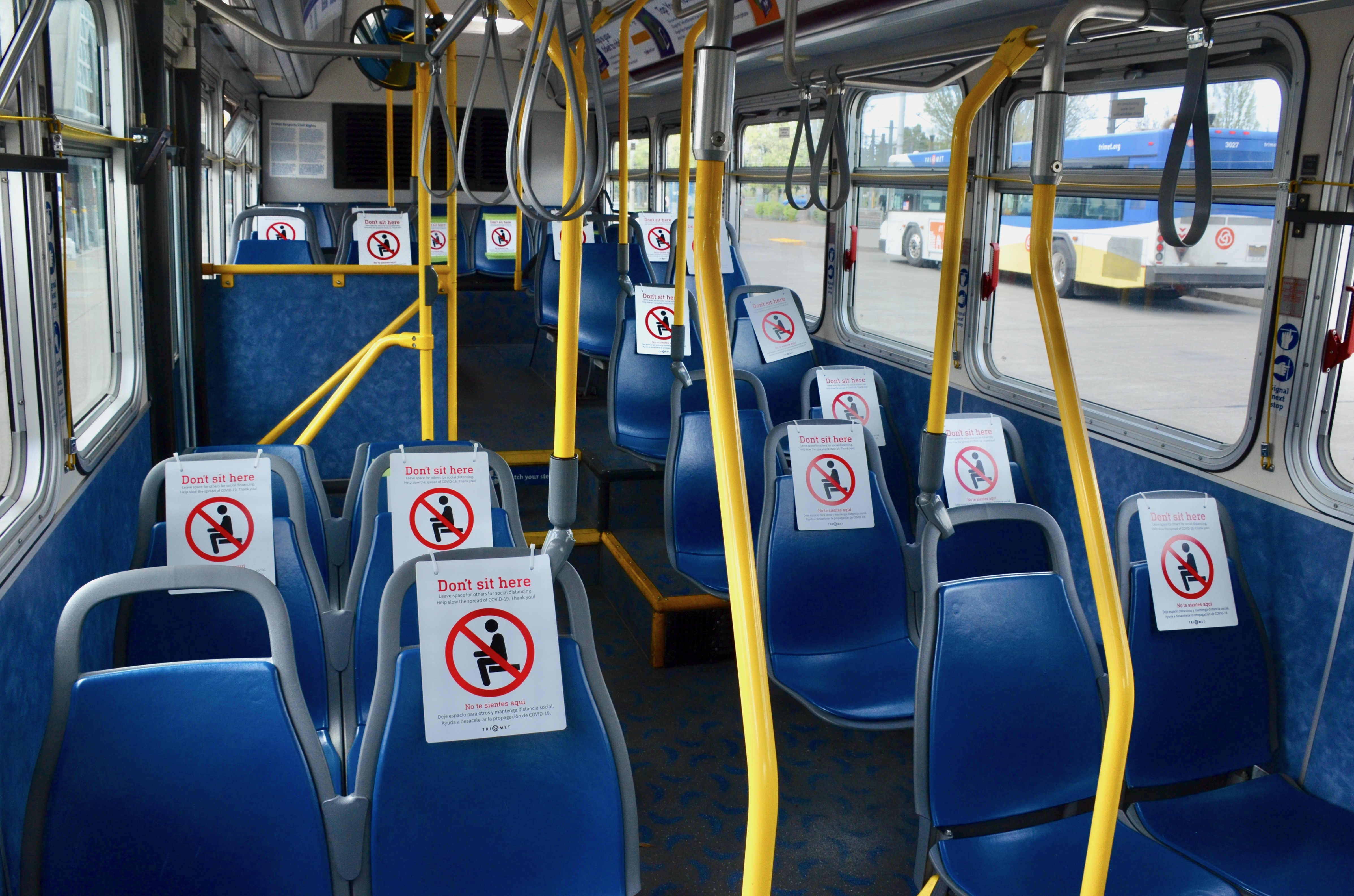 Interior of a bus of TriMet (the transit agency serving the Portland, Oregon, metropolitan area) with the majority of seats temporarily marked with "Don't sit here" signs, intended to encourage physical-distancing among passengers – in accordance with a temporary 10-passenger limit on all TriMet buses – during the 2020 coronavirus pandemic. This bus had just arrived at the Beaverton Transit Center.